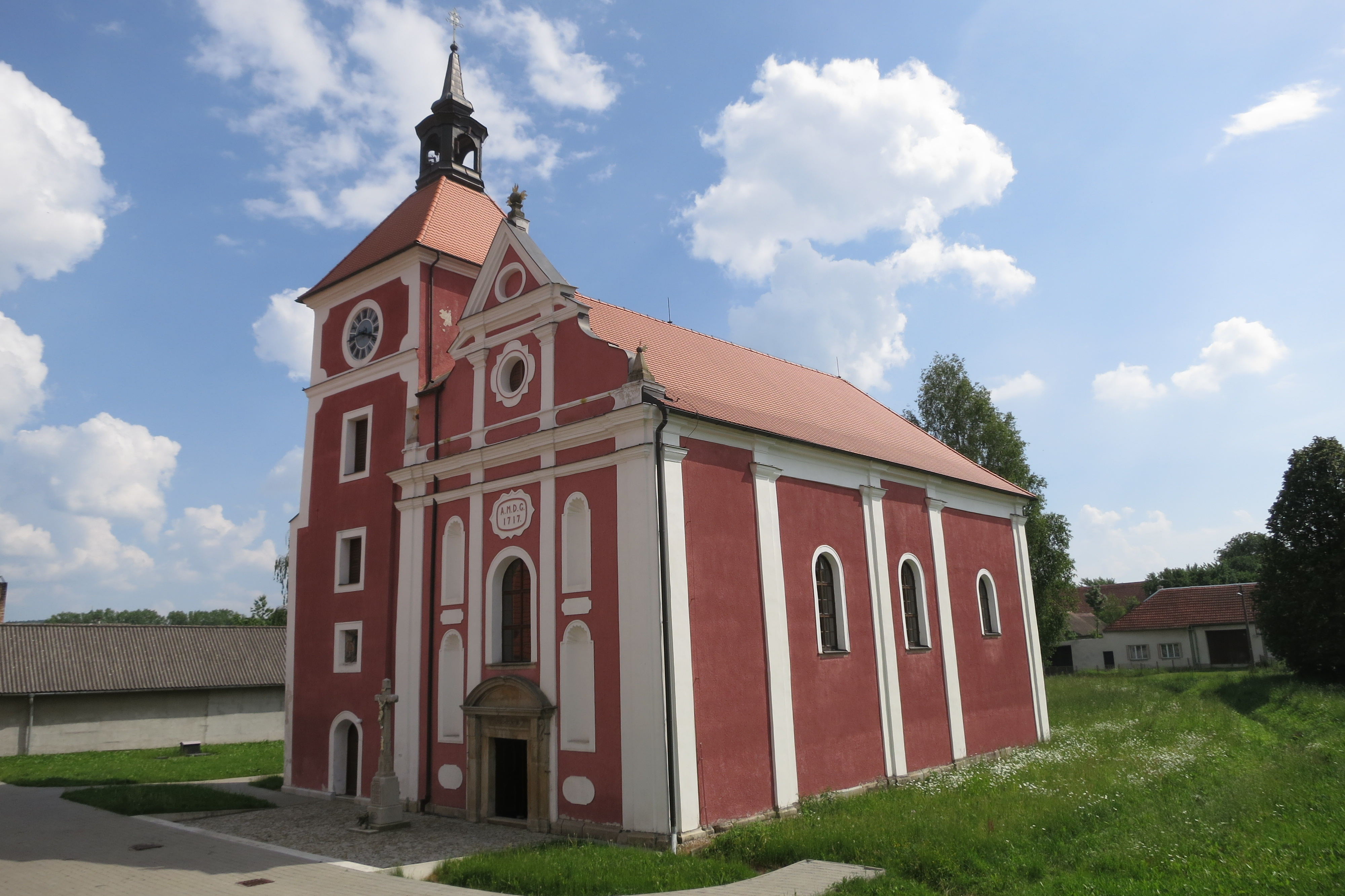 Overview of Church of the Exaltation of the Holy Cross in Knínice, Jihlava District.